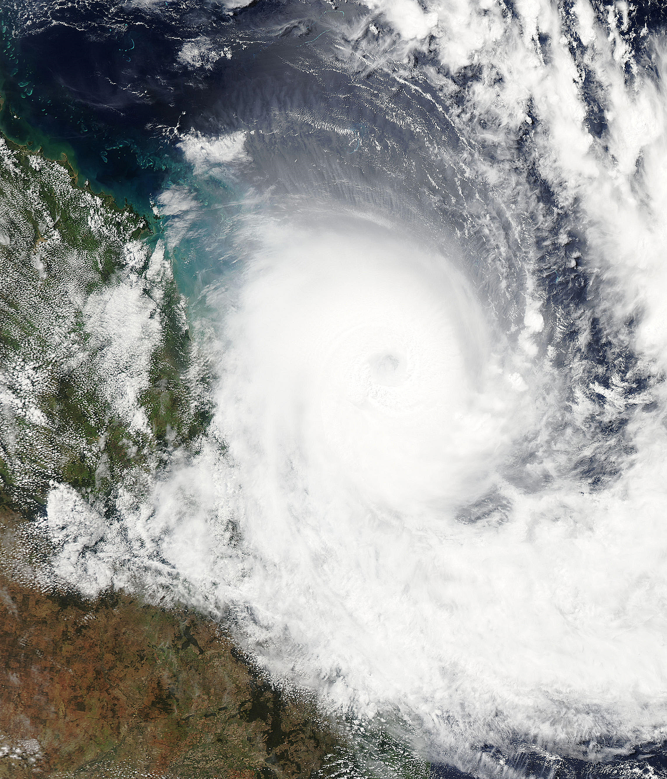 9 March 2009 MODIS Aqua satellite image of Severe Tropical Cyclone Hamish over the Coral Sea just off the Queensland coast.